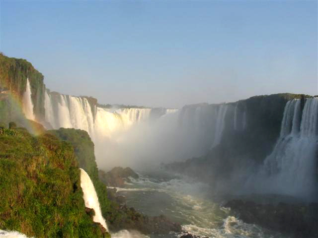 Iguazu Falls, in Misiones (Argentina).